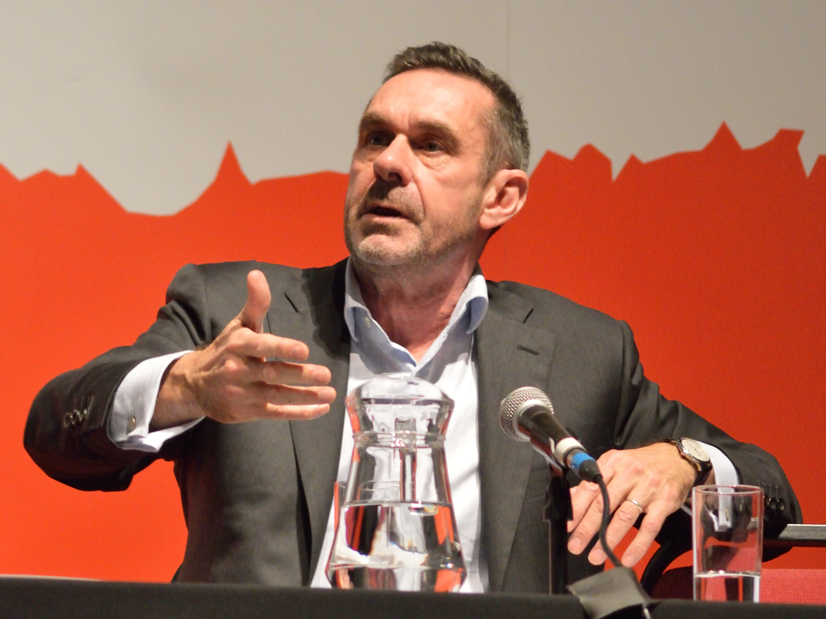 Paul Mason speaking at the ResPublica Tomorrow's Democracy day conference at The Riverfront, Newport, on 5 November 2018.